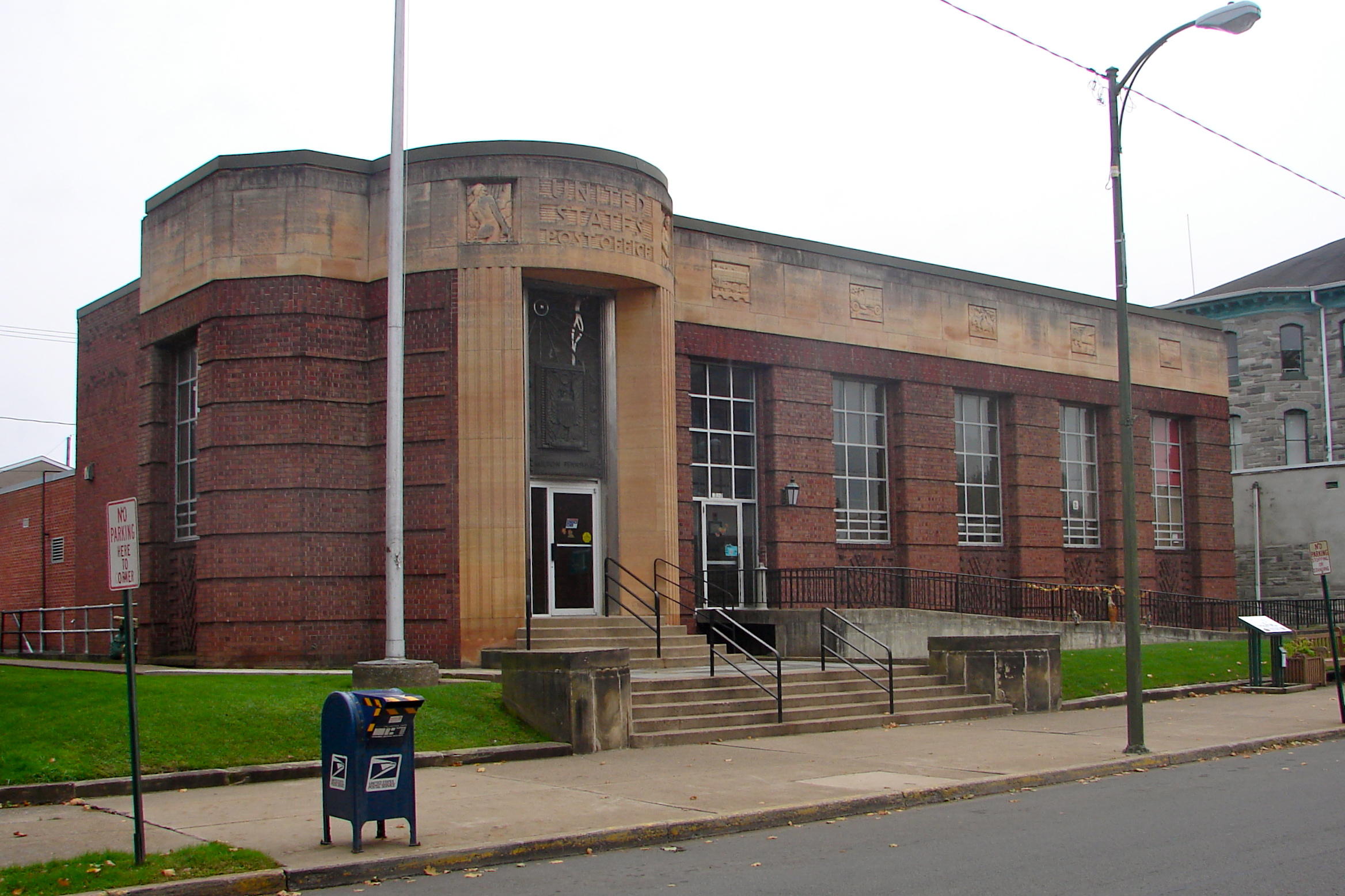 The Post Office in Milton, Pennsylvania (Northumberland County). Built 1934 with relief panels showing methods of delivering the mail. Coordes 41.02091,-76.854987